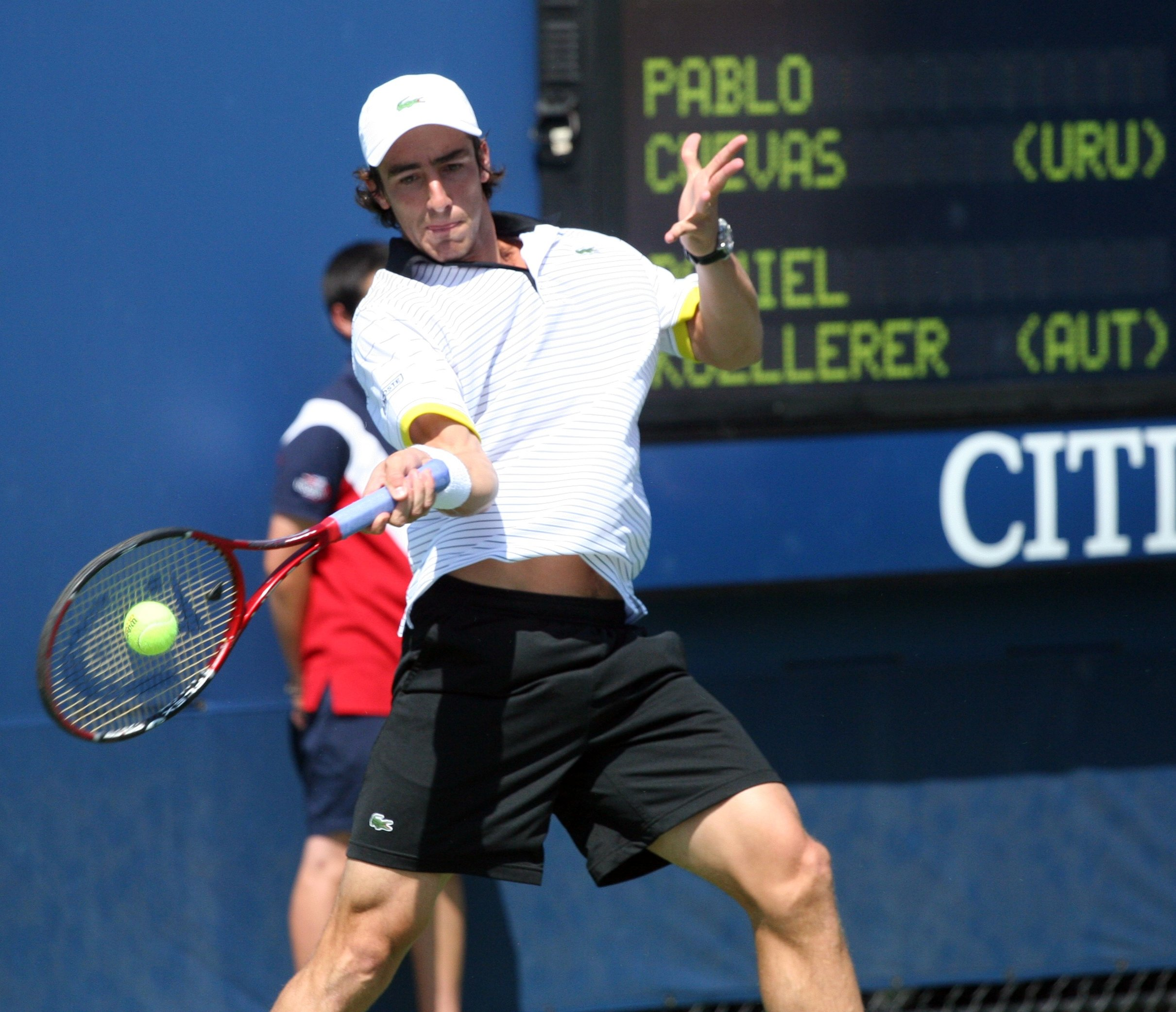 U.S. Open Friday, Sept. 4, 2009